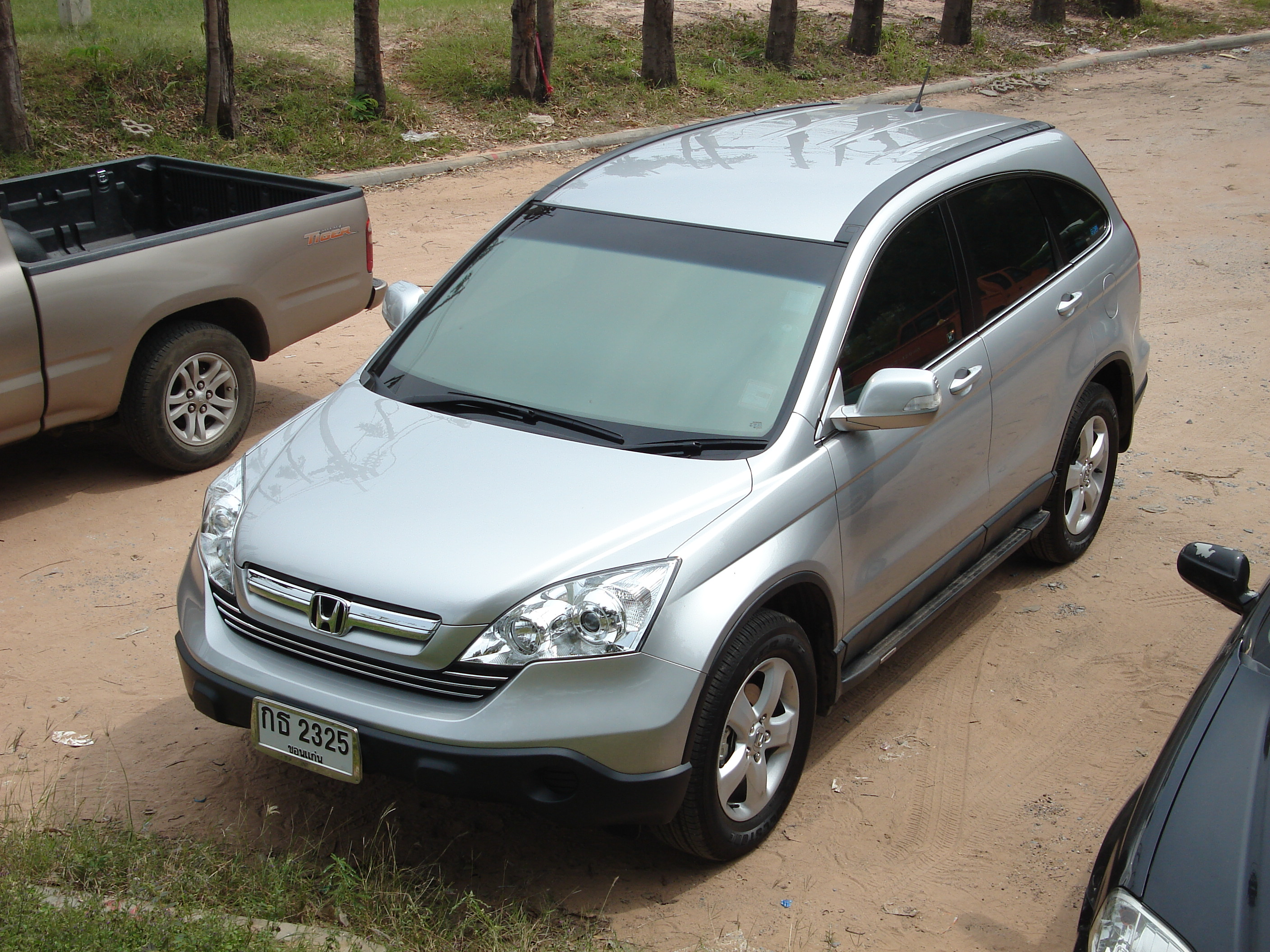 Honda CR-V -- Khonkaen, Thailand